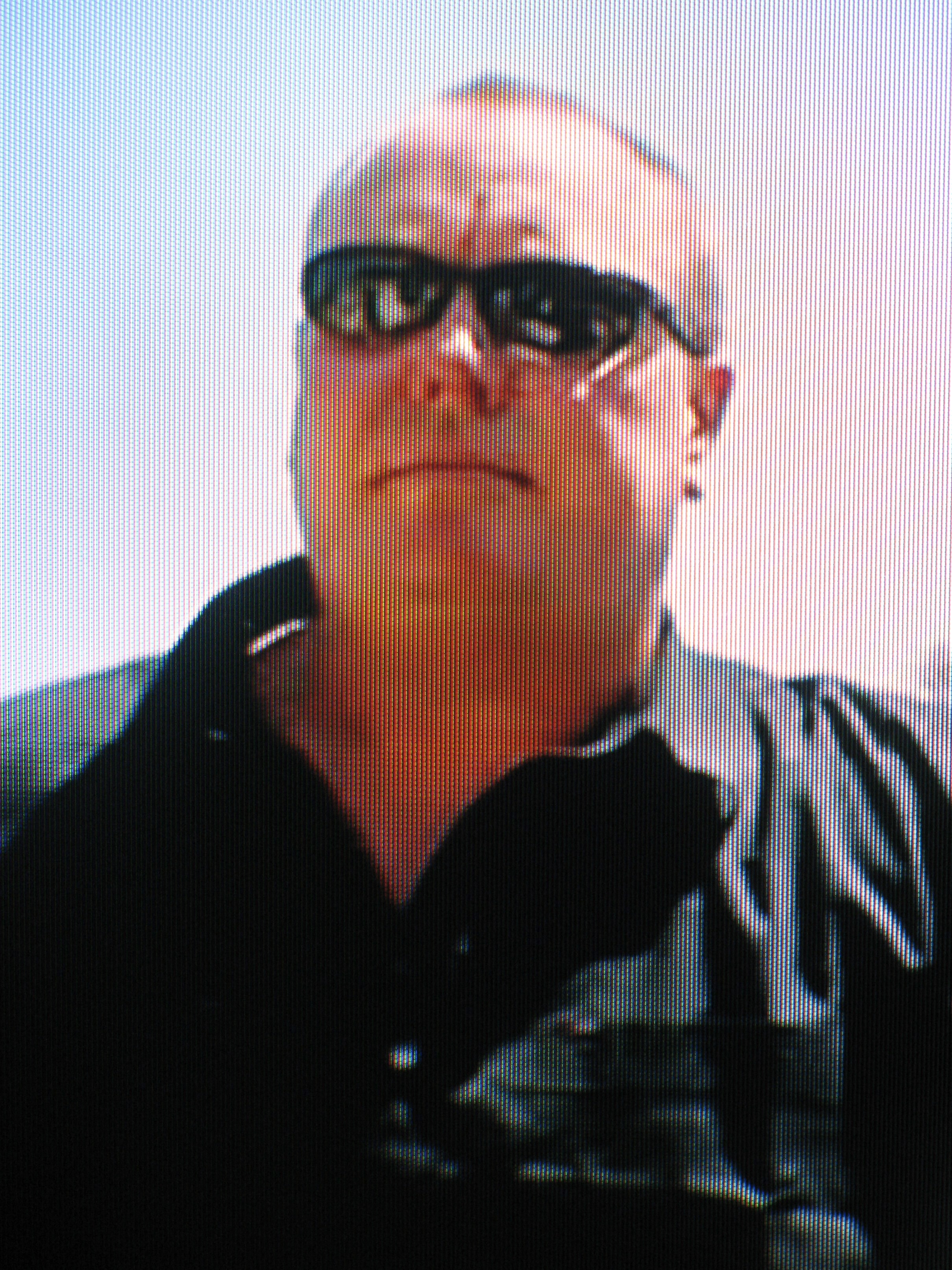 Jamie Reeves - a strength athlete from England